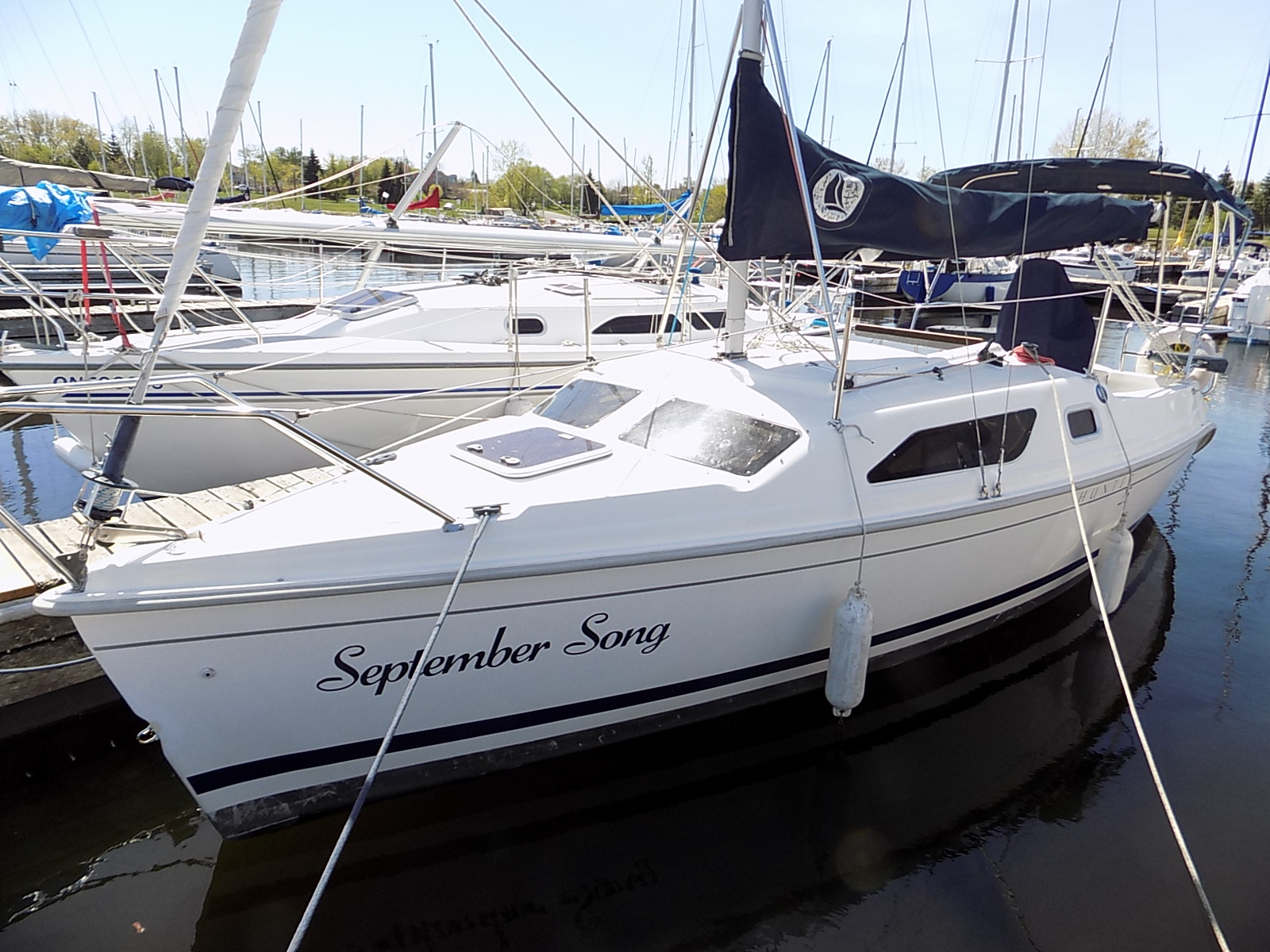 A Hunter 25 sailboat named September Song.